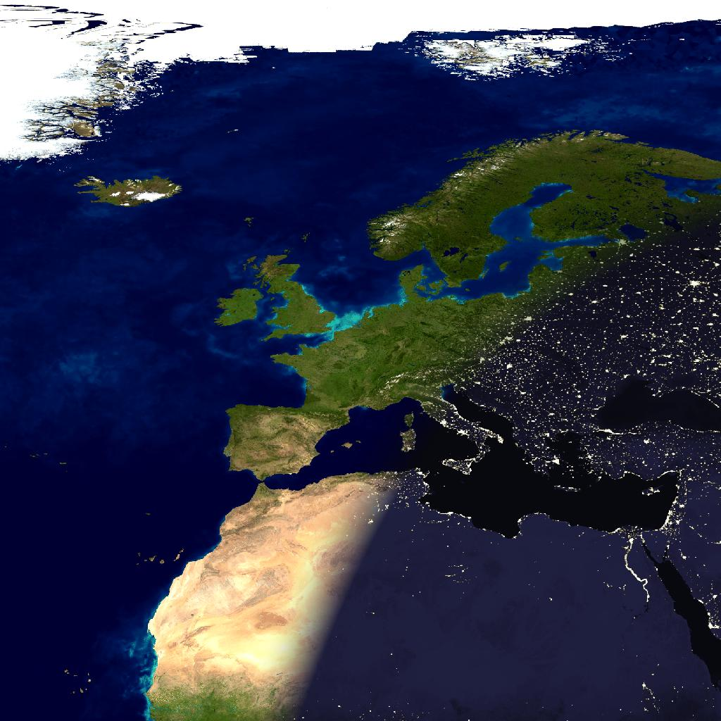 Nightfall over Europe and Africa. The image is centered on latitude 48° north, longitude 4°17' east. The solar terminator is shown for UTC July 5, 2005 18:45:00. This is an artificial image generated using the Earth and Moon Viewer, earth imagery derived from the NASA Visible Earth Terra/MODIS cloudless Earth and DMSP city lights images.